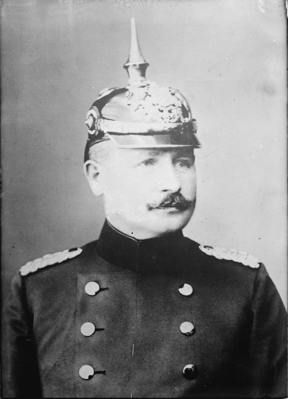 Prussian Minister of War Wilhelm Groener